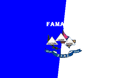 Flags of the city of Fama, Minas Gerais, Brazil.